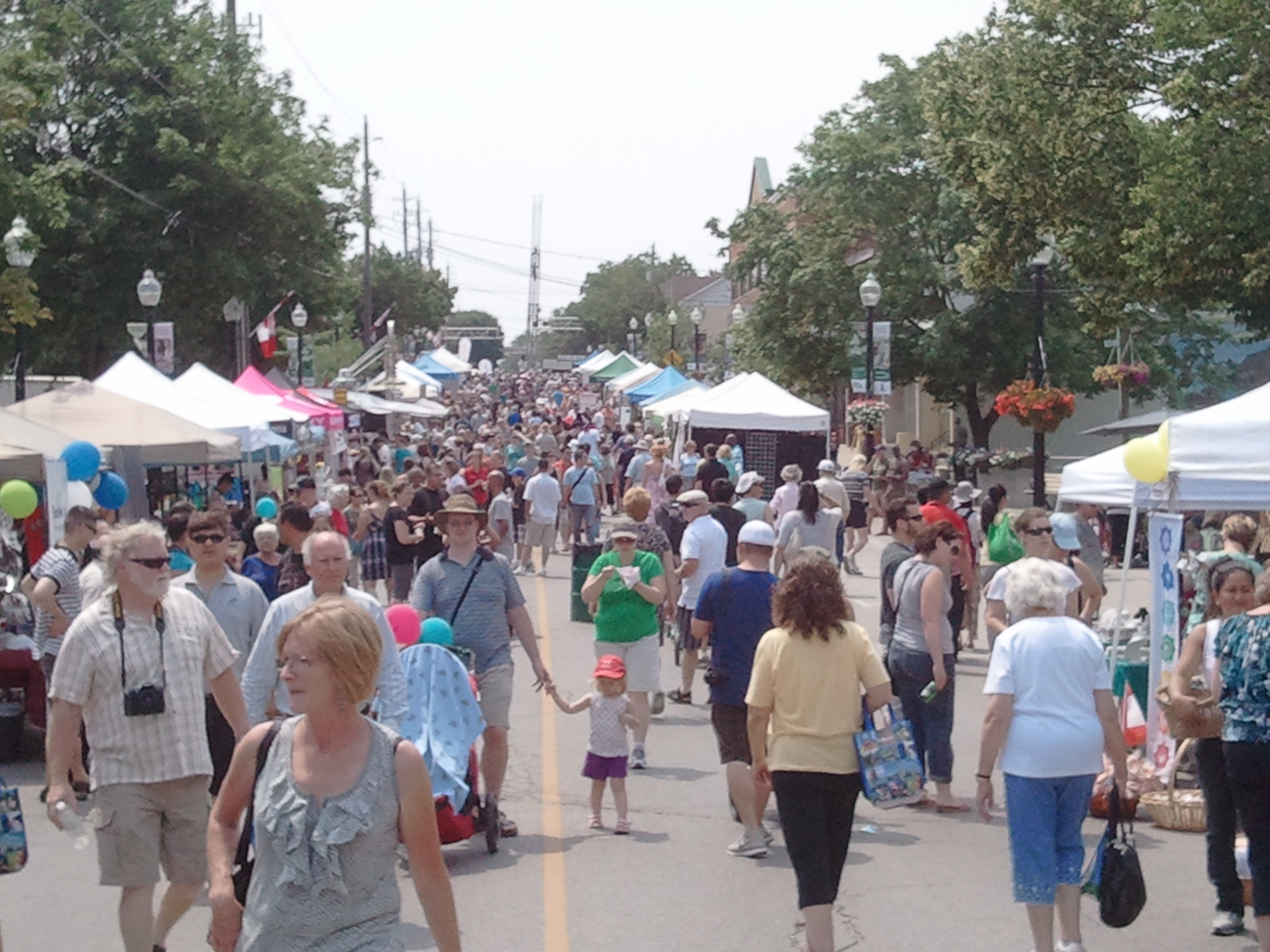 Stouffville Strawberry Festival, July 2, 2011, on Main Street, looking west.